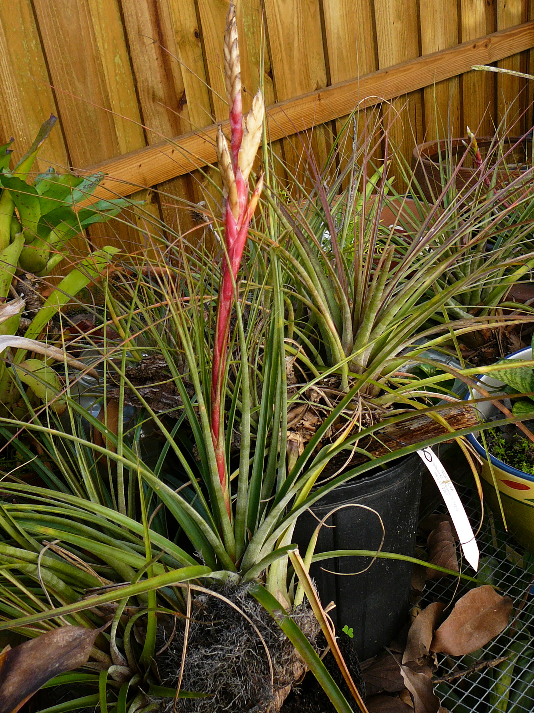 Tillandsia Schiedeana Bloom